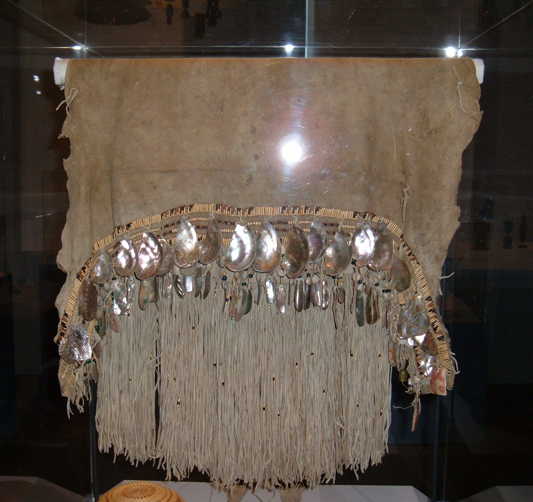 Yurok, Karuk dance skirt (late 1800s) made of leather, abalone, pine nuts, beads, and metal on display at the Iris & B. Gerald Cantor Center for Visual Arts on the Stanford University campus in Stanford, California.